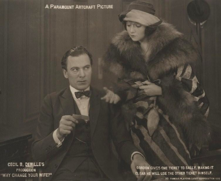 Thomas Meighan & Bebe Daniels in Why Change Your Wife? - publicity still (cropped : see source)